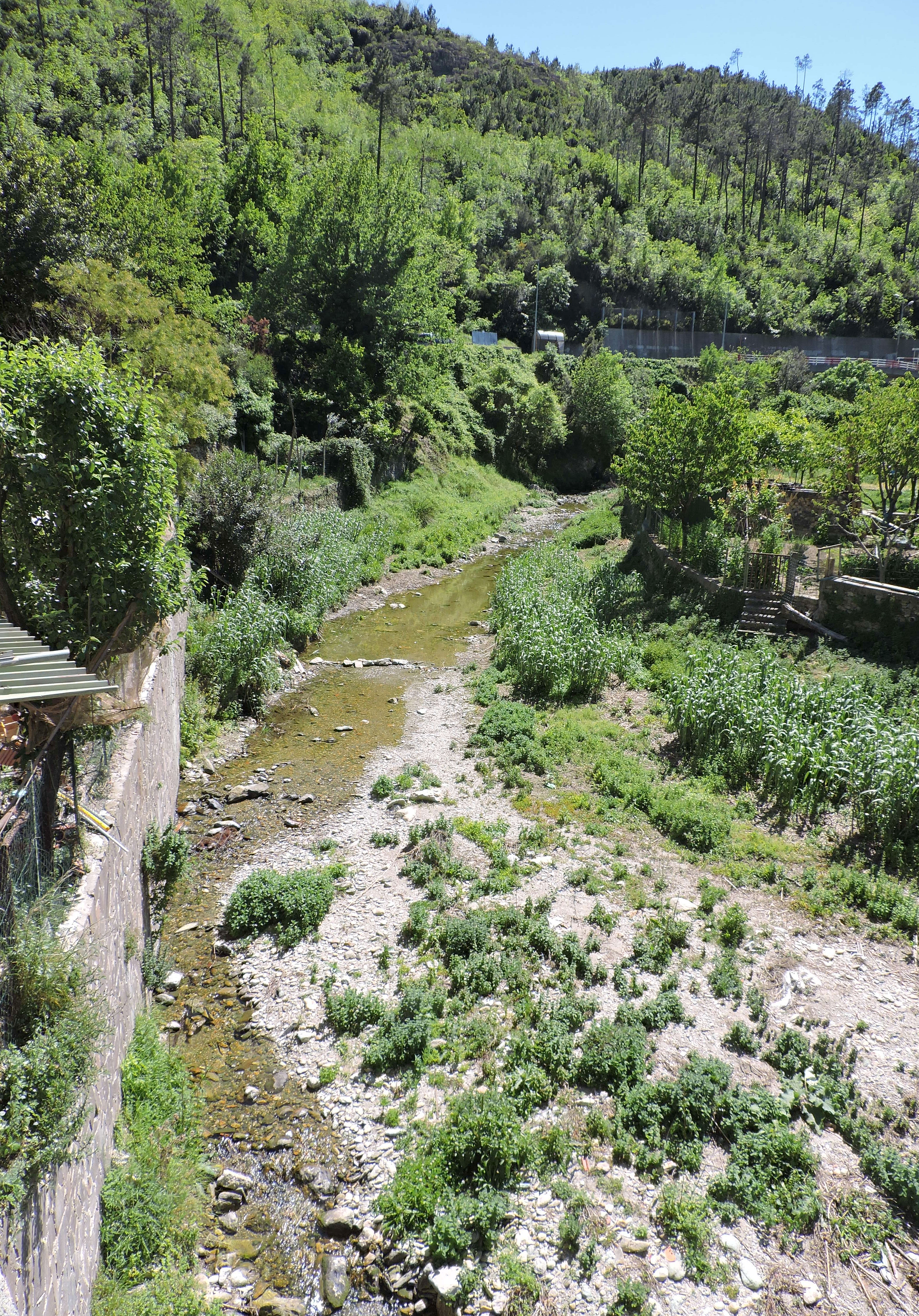 Torrente Segno (Liguria, Italy) in San'Ermete (Vado Ligure)